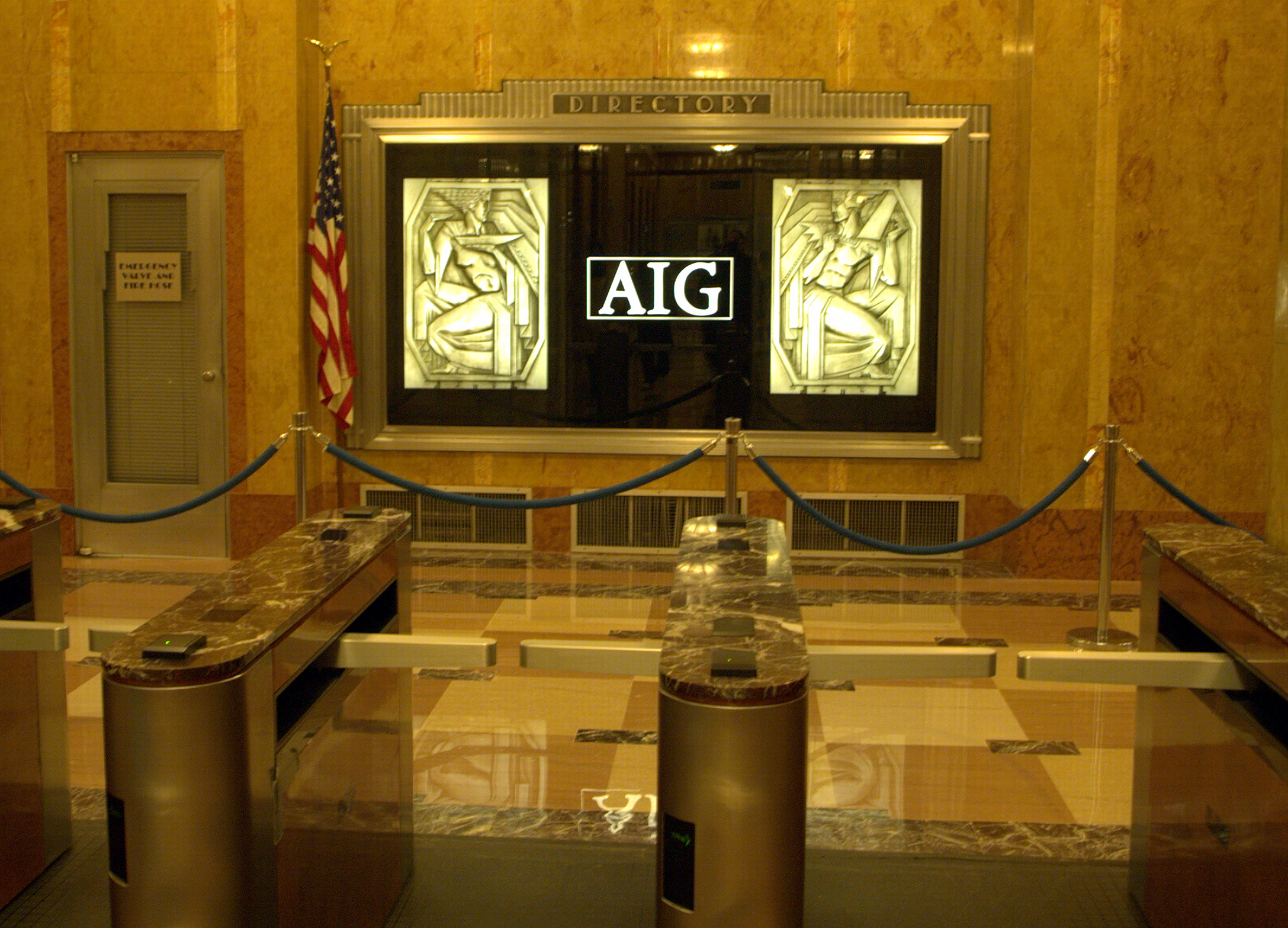 The sign in the lobby of AIG's headquarters at the American International Building located at 70 Pine Street, New York City. Photographer's blog post about this photo.